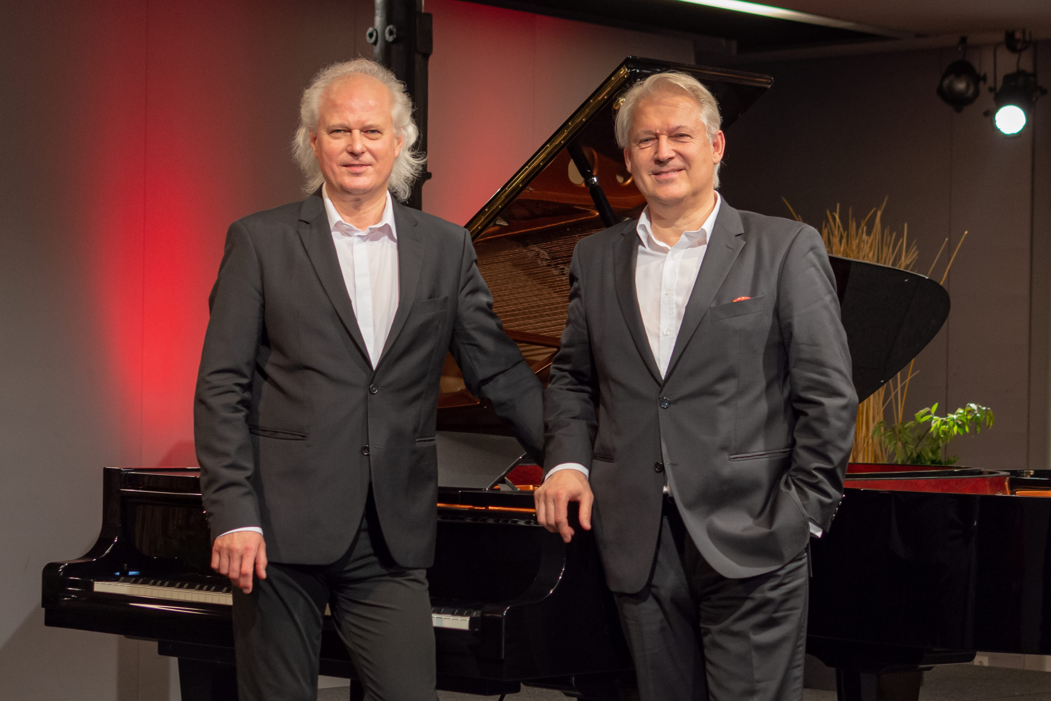 Johannes and Eduard Kutrowatz after a performance at Kulturfabrik Hainburg, Austria, 2019